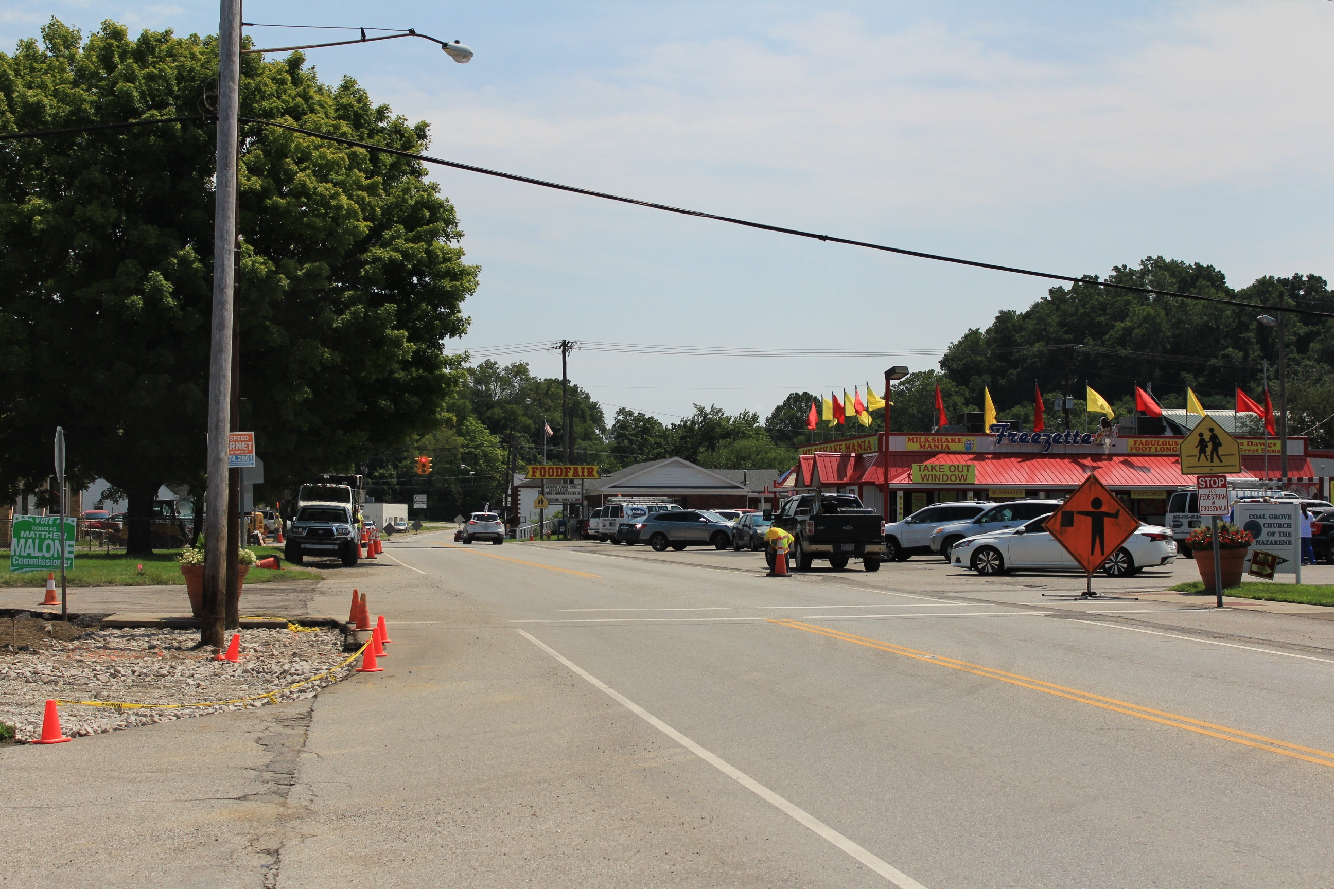 Coal Grove, Ohio along Marion Pike (SR 243) through the center of the village.